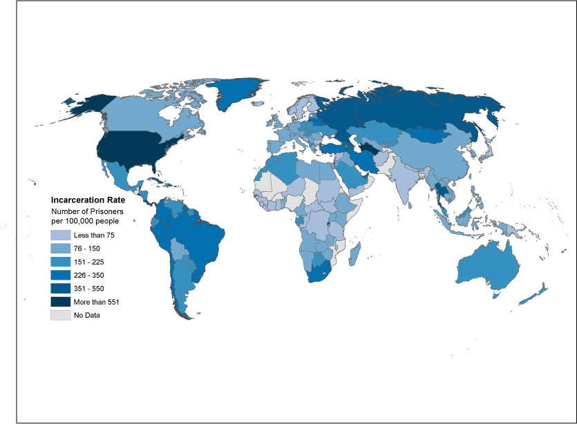 A map of incarceration rate by country, not showing several island countries.